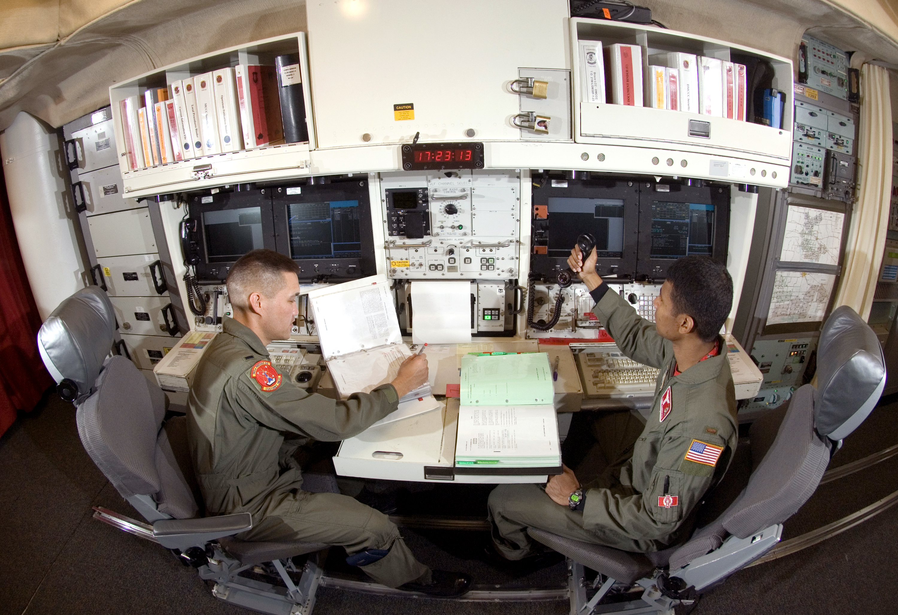 Minuteman missile combat crew on alert. Typically, a two-person missile combat crew is on alert in an underground launch control center for 24 hours at a time monitoring their ICBMs, ready to launch them if directed. Under a test being conducted by 20th Air Force officials, three-person crews are going to pull 72-hour alerts at select facilities to weigh the advantages of going to such a schedule. Officials from 20th Air Force will evaluate the test after three months to determine whether to implement the initiative across the entire missile force.